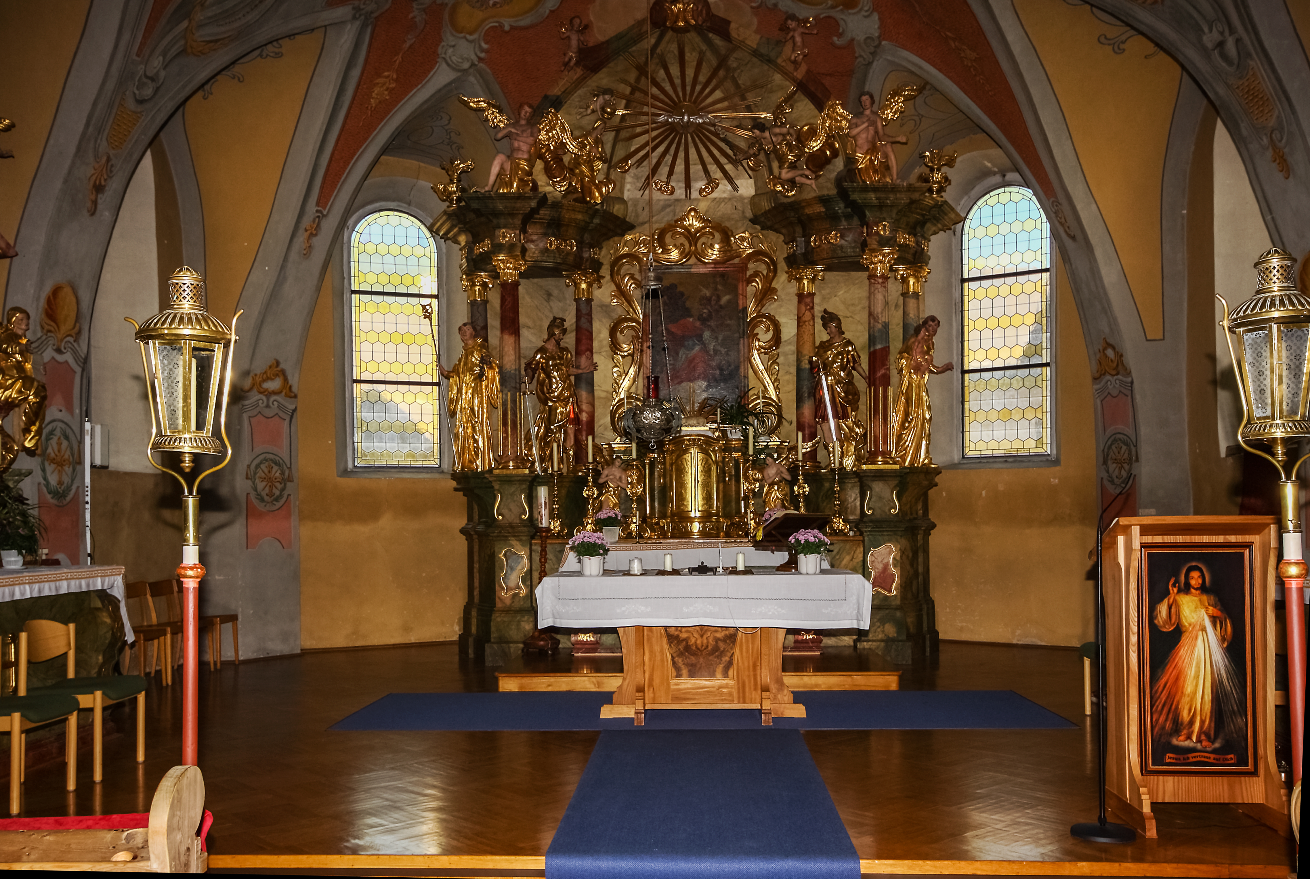 parish church hl. Oswald, Krakaudorf, Lungau, Austria